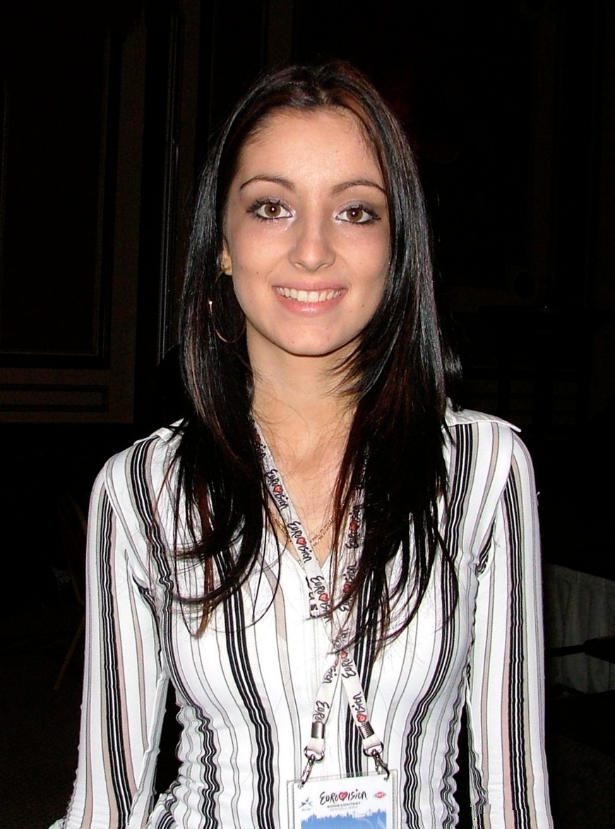 Maryon Gargiulo at Eurovision Song Contes 2004 - Istambul